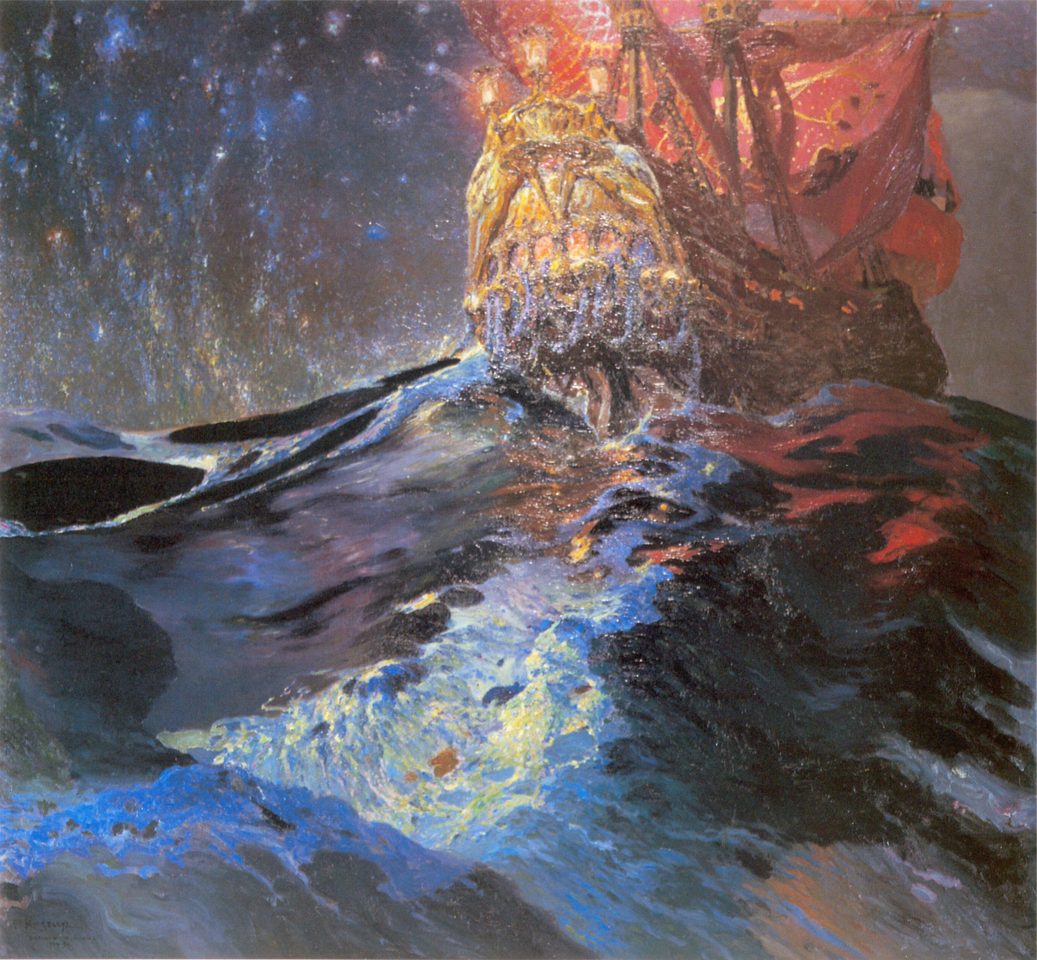 Nec mergitur, oil on canvas, 204x221, Luthuanian Museum of Art in Vilnus